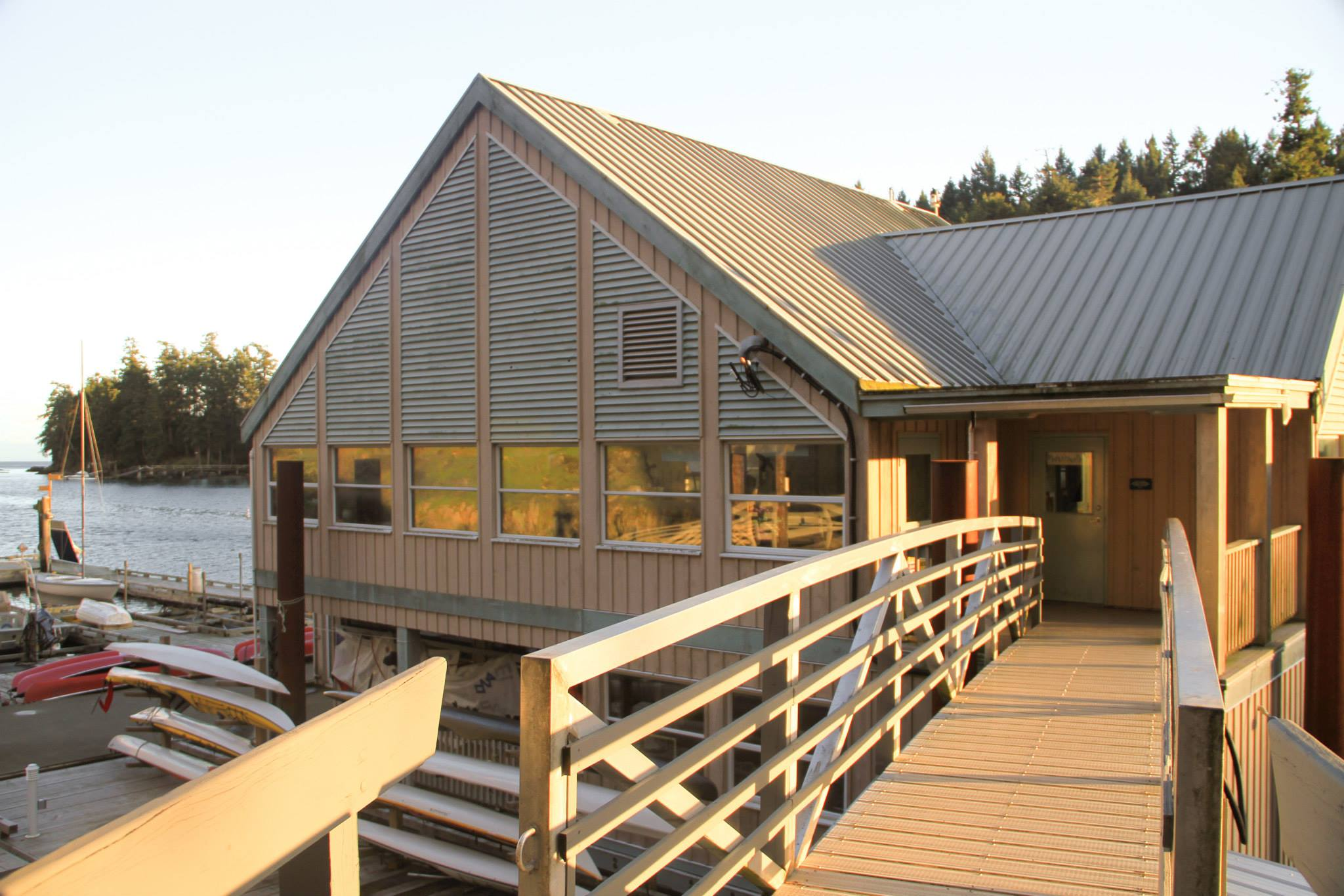 An image of the entrance to the floating academic building at Pearson UWC.